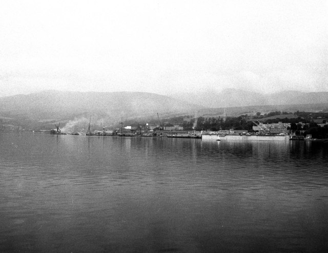 Faslane Bay